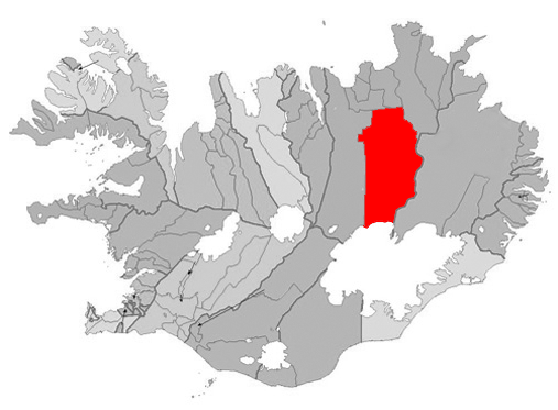 Based on Municipalities of Iceland.png.